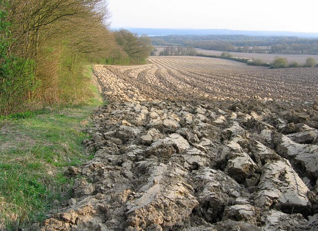 Deeply ploughed field east of Chains Farm. Mud as far as the eye can see! Or rather solid clay soil dried out in the recent warm weather. This field and fields beyond extend into the next grid square to the south. Bough Beech Reservoir can just be seen in the distance.